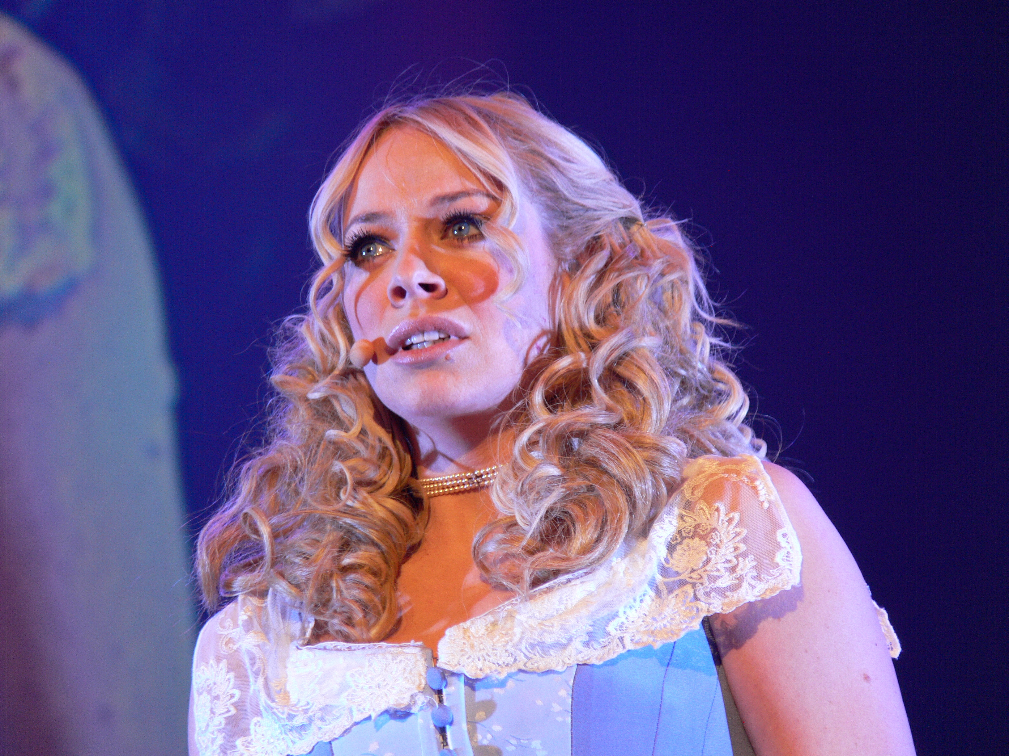 Liz McClarnon as Beth in Jeff Wayne’s “The War of The Worlds”. At Dublin O2 Arena